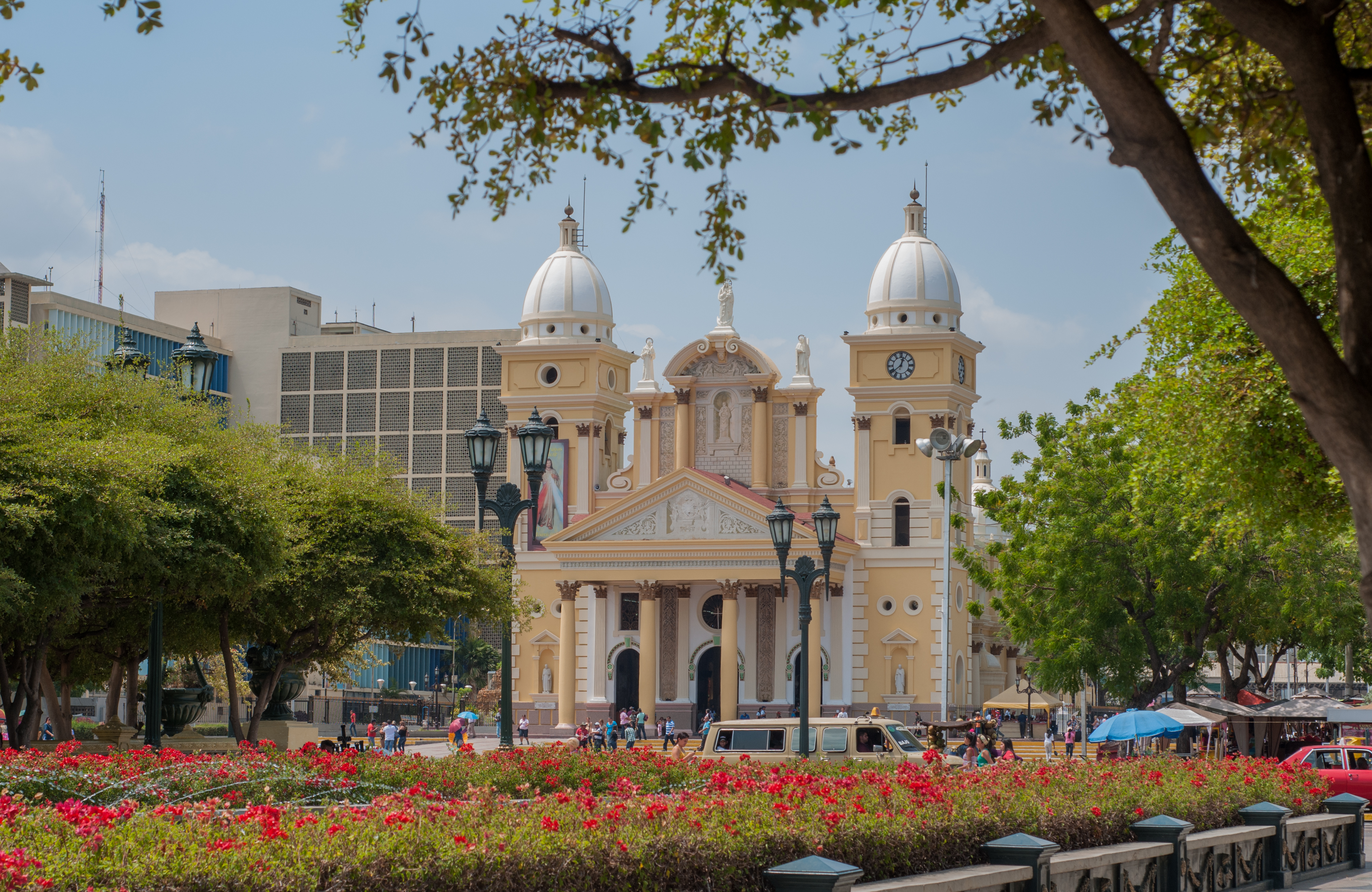 Basilica of Our Lady of the Rosary of Chiquinquirá (Venezuela) Exterior